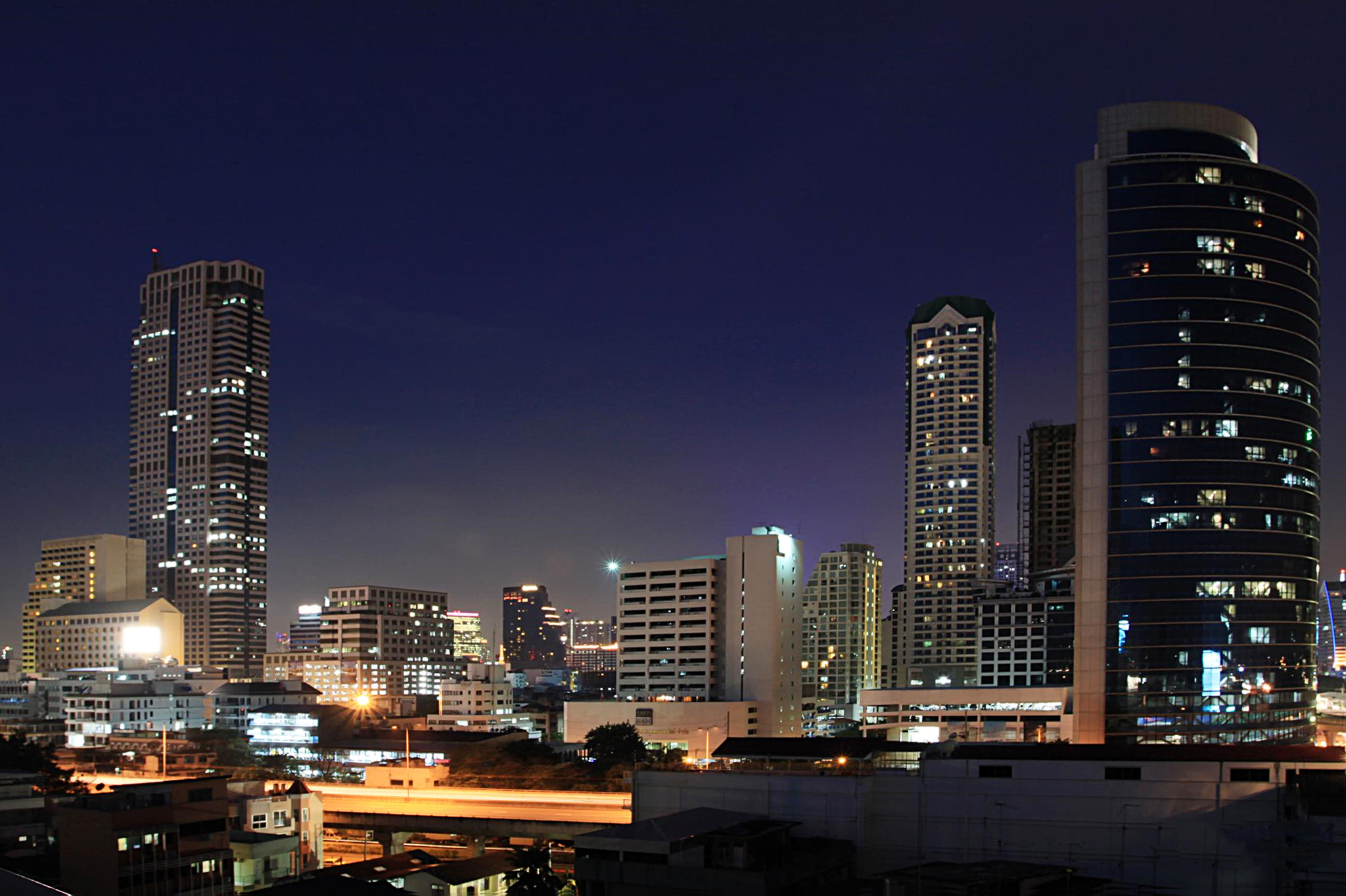 Jewelry Trade Center, Bangkok Thailad. On the left side.